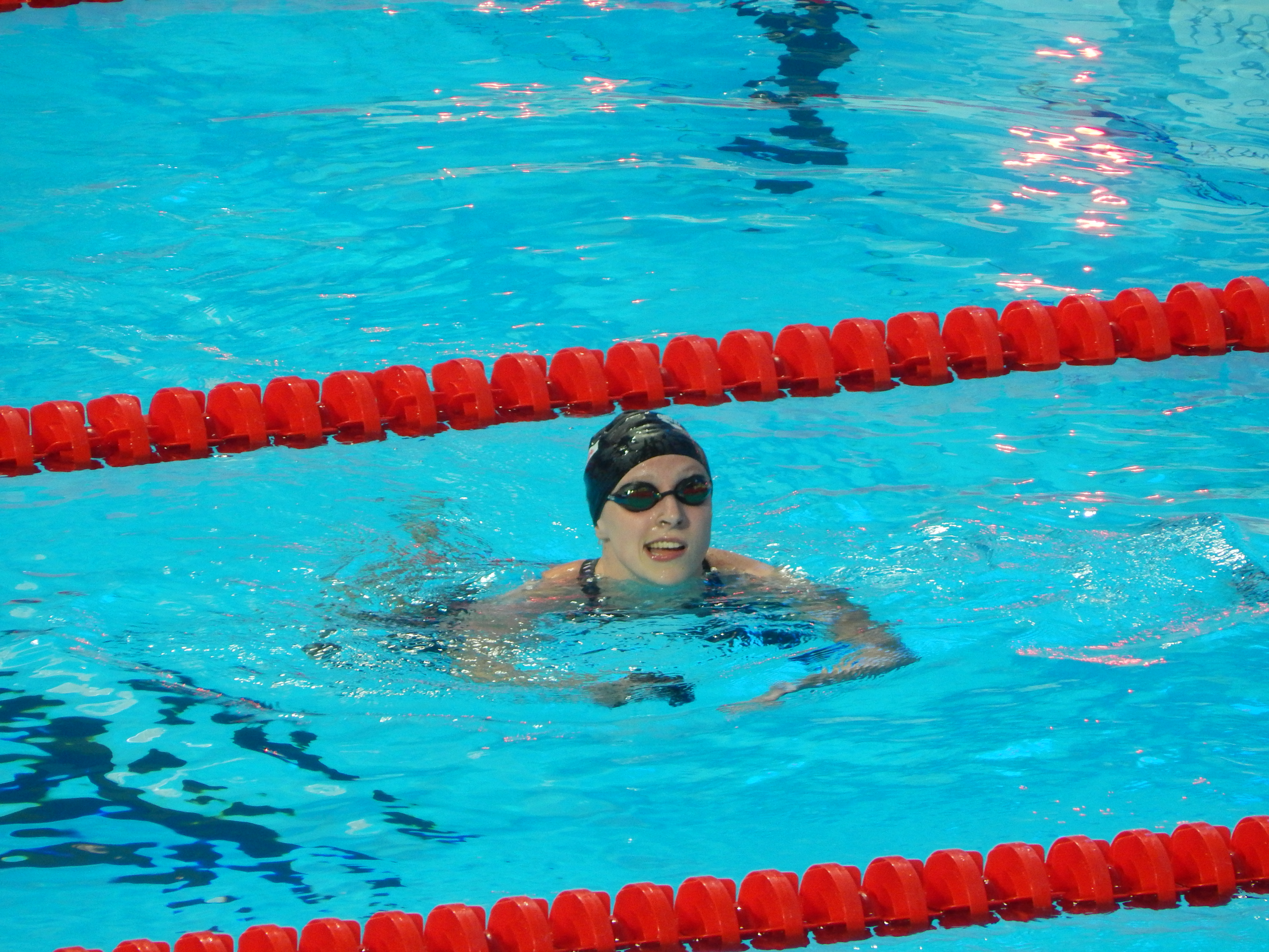 Katie Ledecky wins 400m freestyle at the 2015 Aquatics WC in Kazan